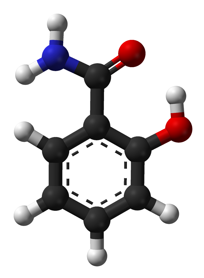 Ball-and-stick model of the Salicylamide molecule.